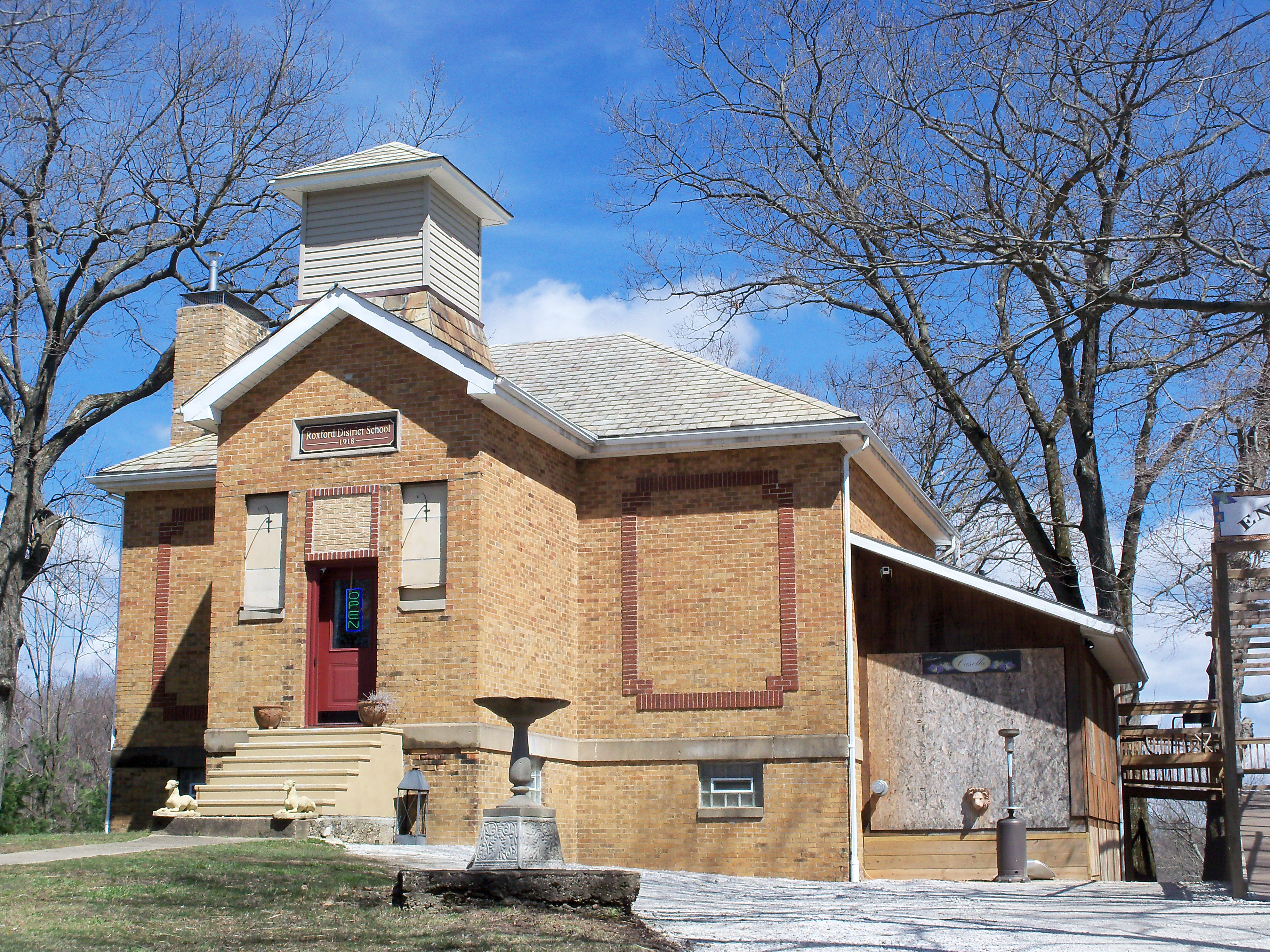 Old school converted to winery in Tuscarawas County, Ohio